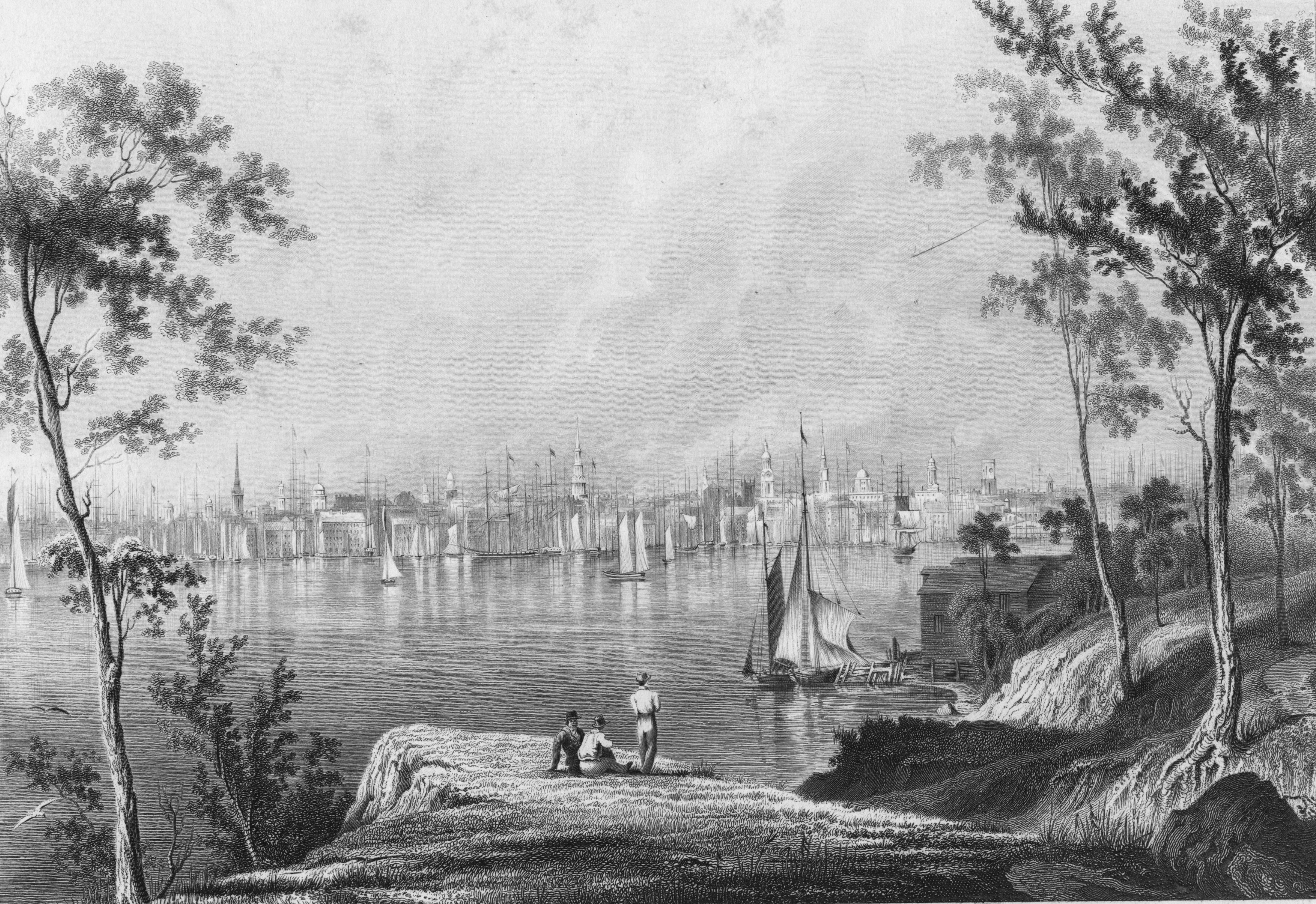 Title from Calendar of the Emmet Collection. EM8914 Statement of responsibility : A.W. Graham